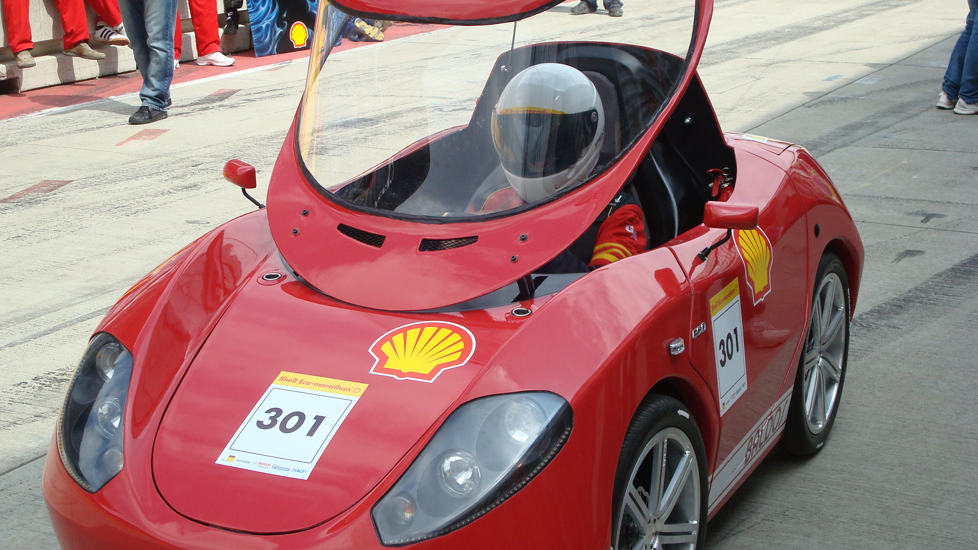 Baldos II